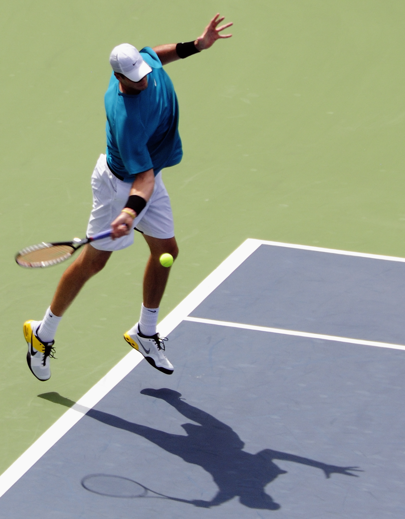 John Isner at the 2009 US Open